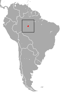 Roosmalens' Dwarf Marmoset (Callibella humilis) range